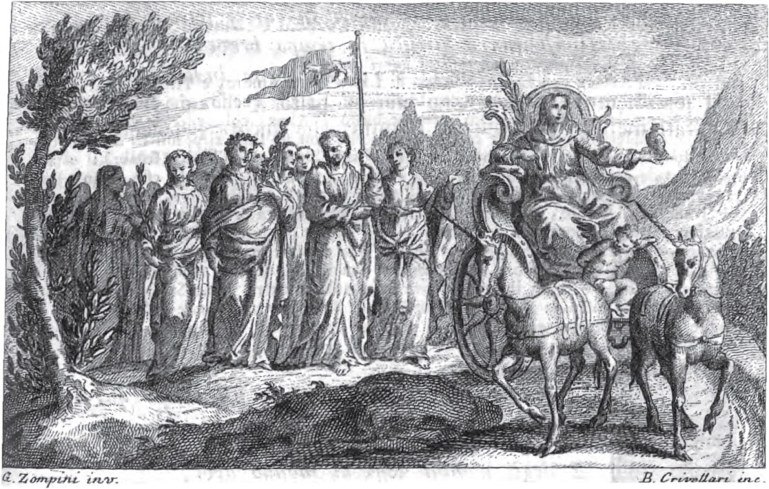 Engraving of Petrarch's Triumph of Chastity.